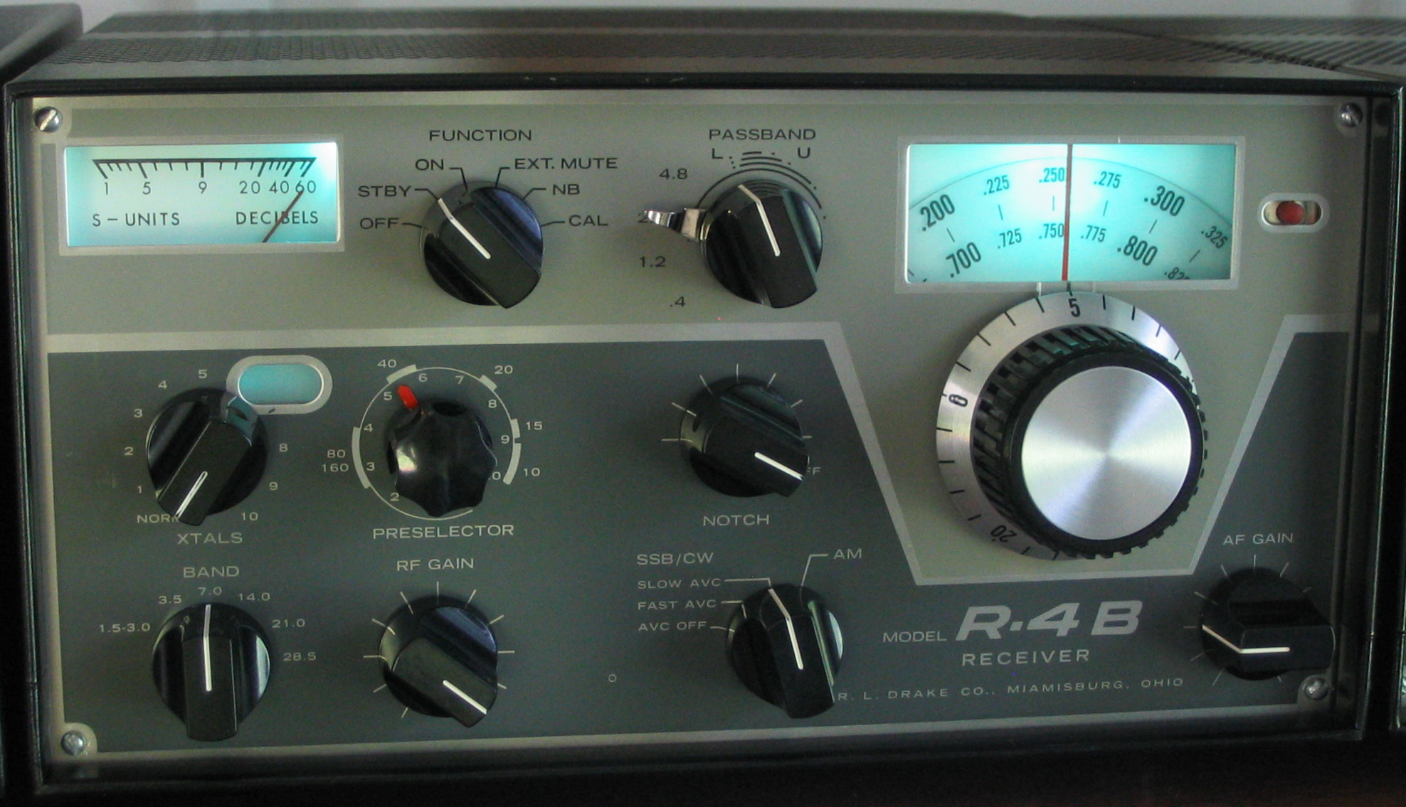 R. L. Drake model R-4B receiver